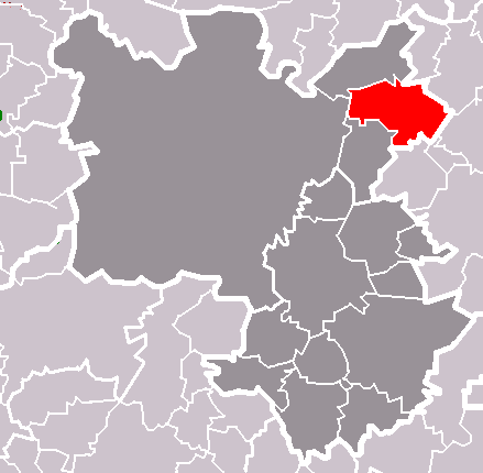 Location of Dýšina municipality within Plzeň-City District.